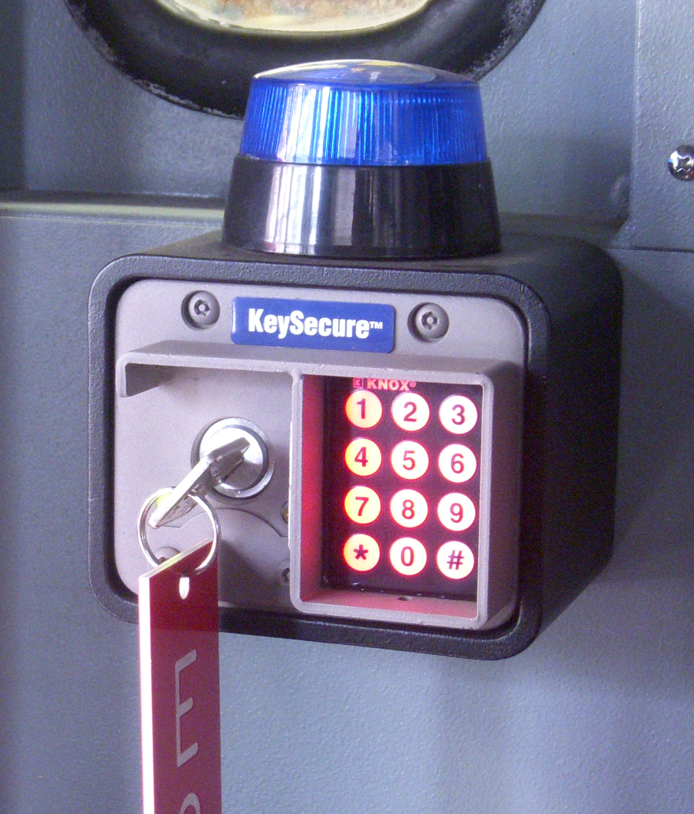 Fire engine mounted KeySecure device, which holds a fire department key for access to Knox Boxes.